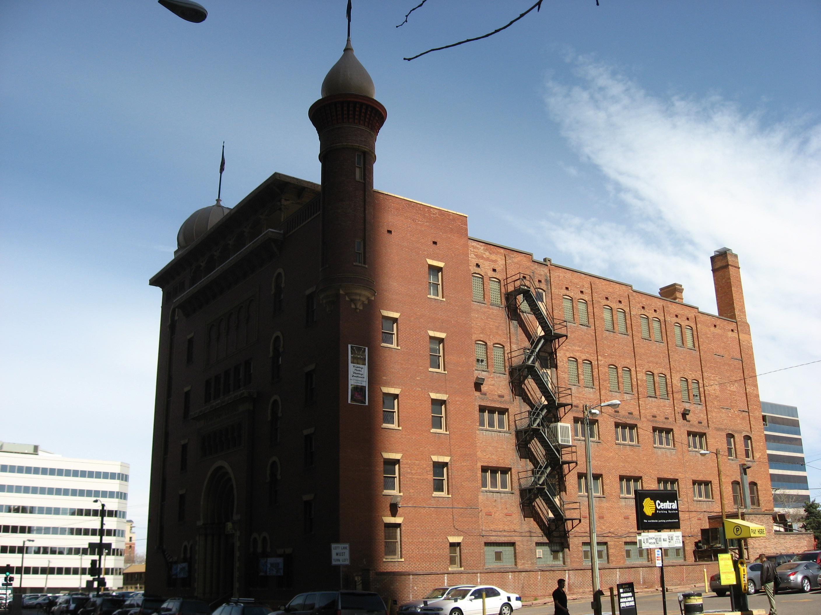 The Mosque of the El Jebel Shrine, located at 1770 Sherman Street in Denver, Colorado, United States. Built in 1907, the Shriner temple is listed on the National Register of Historic Places.